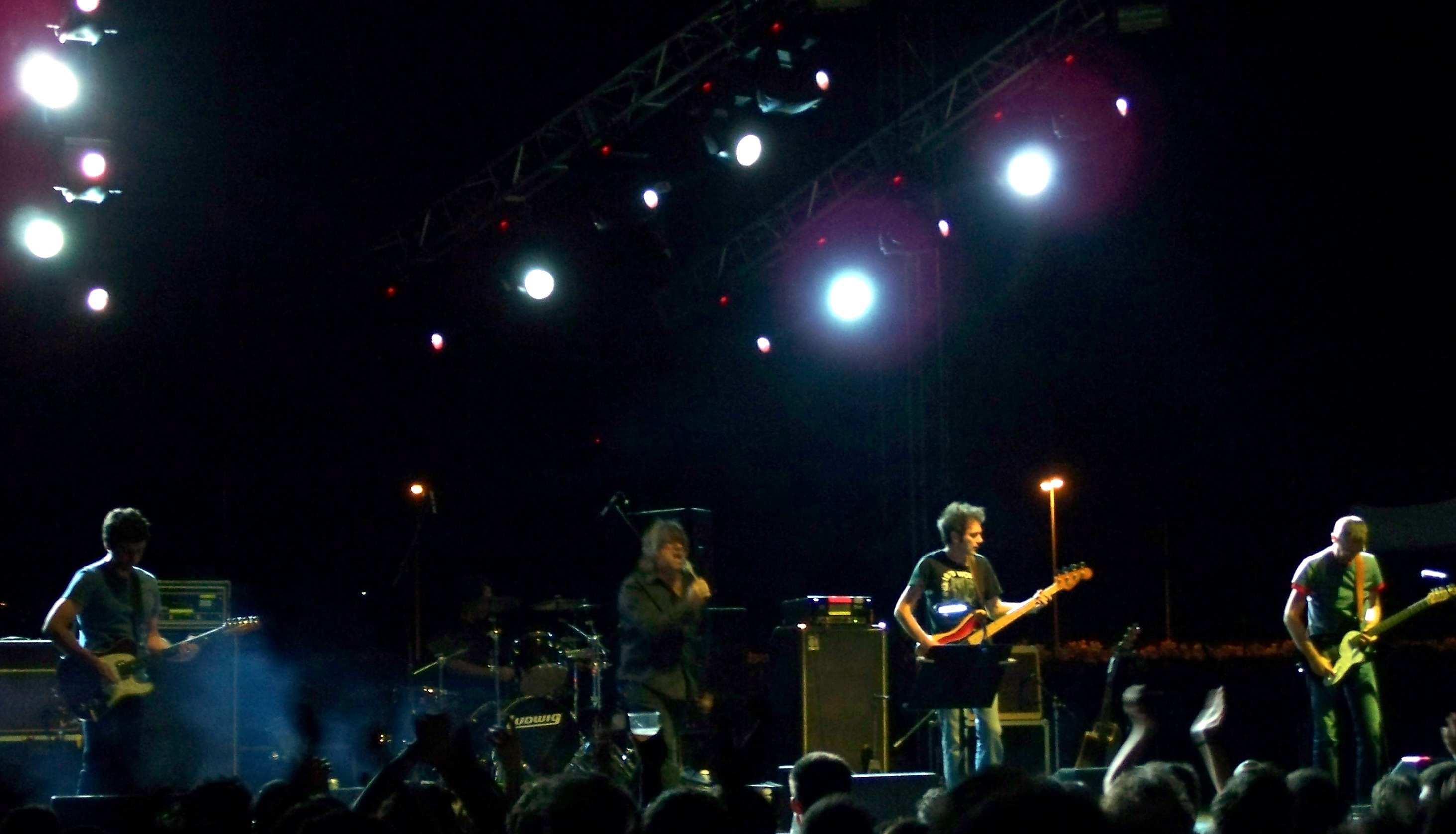 Greek rock group Diafana Krina live in Athens July 2007 at the Open Air fest.